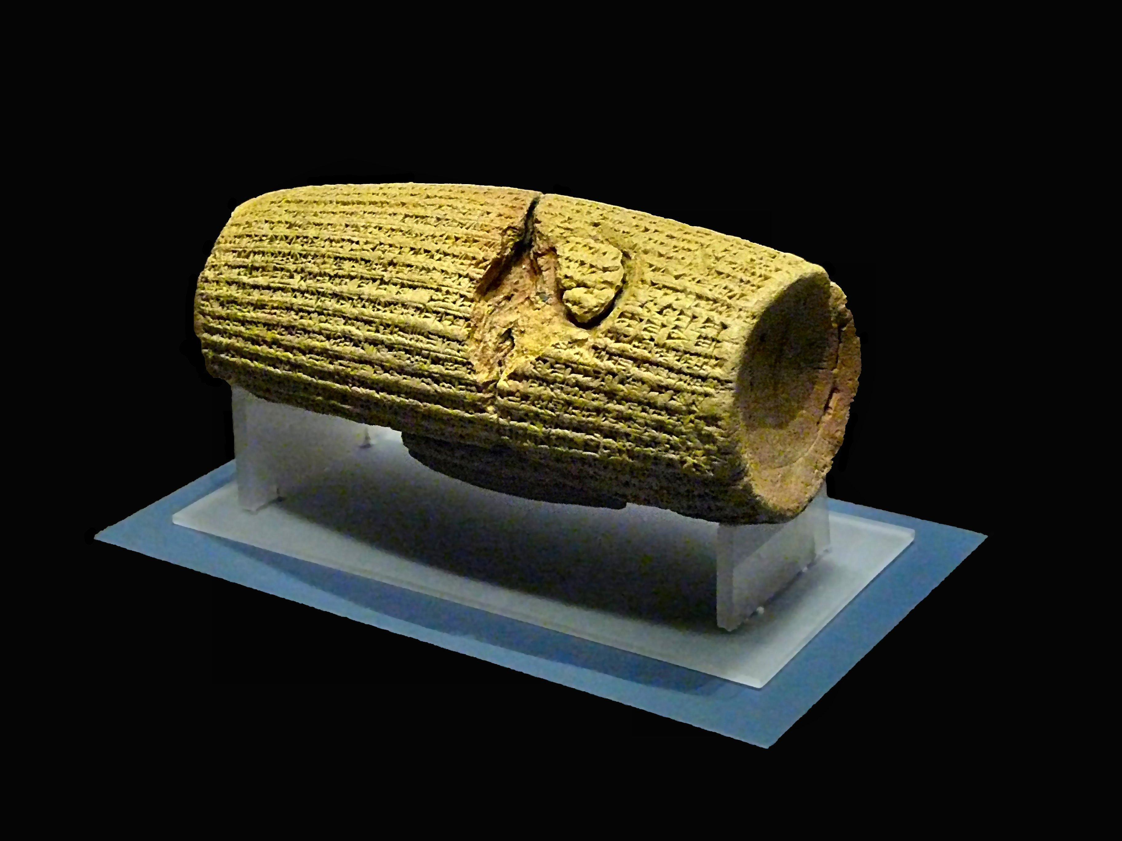 Cyrus the Great’s clay cylinder. This cylinder was graved on the order of Cyrus as a political testimony after his conquest of Babylon. Taking his inspiration in the older Babylonian custom of royal propaganda (new rulers used to back their legitimacy by publishing such documents), he describes Nabonidus’s (previous Babylon ruler) tyranny, speacks of Marduk’s anger toward Nabonidus (babylonian god), introduce himself as Marduk’s new champion, describe his peaceful capture of Babylon (note: after a battle took place at Opis), introduce his titles, talk of himself as a peaceful prince, declares the religious measures he’ll take, pray, declares projects of building and restaurations. Cyrus’s cylinder is sometime presented as one of the ancestors of human right declarations. Although such claim is a topic of modern political controversy, no historical evidence links the human right bill to Cyrus’s cylinder. However, the cylinder seems to introduce elements evoking a principle of religious tolerance, often alleged as a characteristic of the achaemenian dynasty. No evidence of such tolerance was ever really found, but clues can be issued from the the Bible and books of Ezra mentioning Cyrus’s sympathy for the Jews he allowed to return in Israel. Rather than supporting the freedom of religion, the text speaks of restoring the ancient cults that were alleged to be not respected by the previous ruler. Leaving aside any controversy, the cylinder is a historical document allowing us to see how the king views himself, or rather how he expects his new subjects will see him. Politic and history are different matters, but keep closely tied together. Taken at the British museum, London, United Kingdom, December 2009.